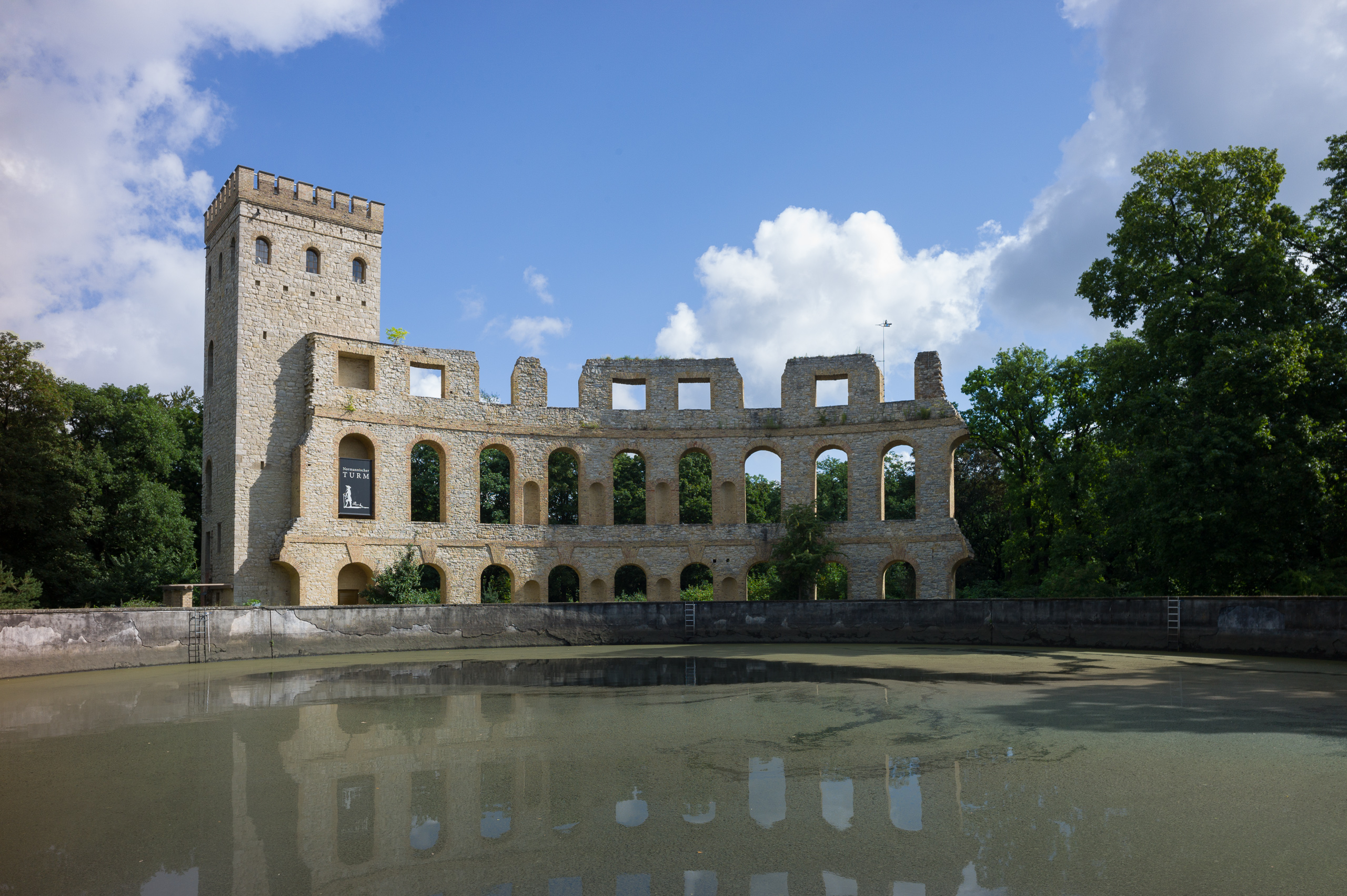 Norman Tower on top of the Ruinenberg in Potsdam, Germany